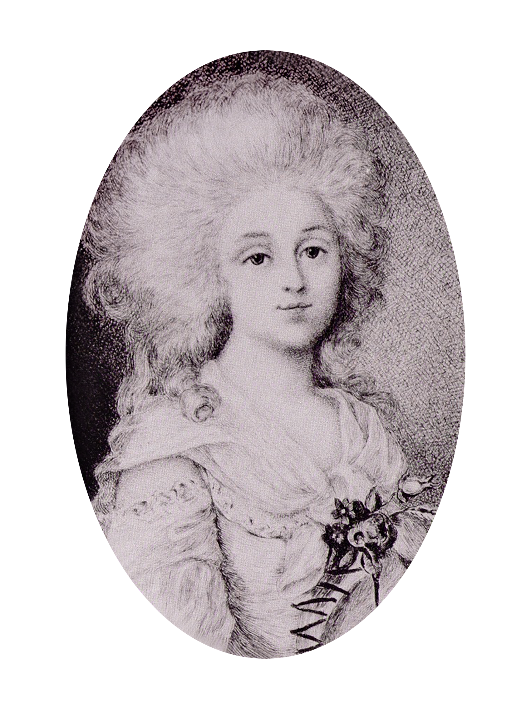 engraved image from biography of Madame de Custine